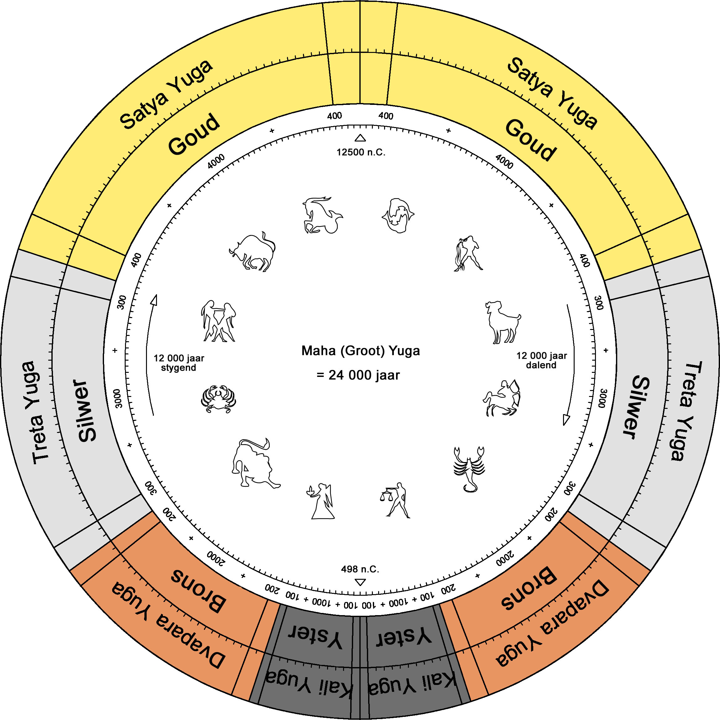 The Yuga ages according to Sri Yukteswar in afrikaanser language.